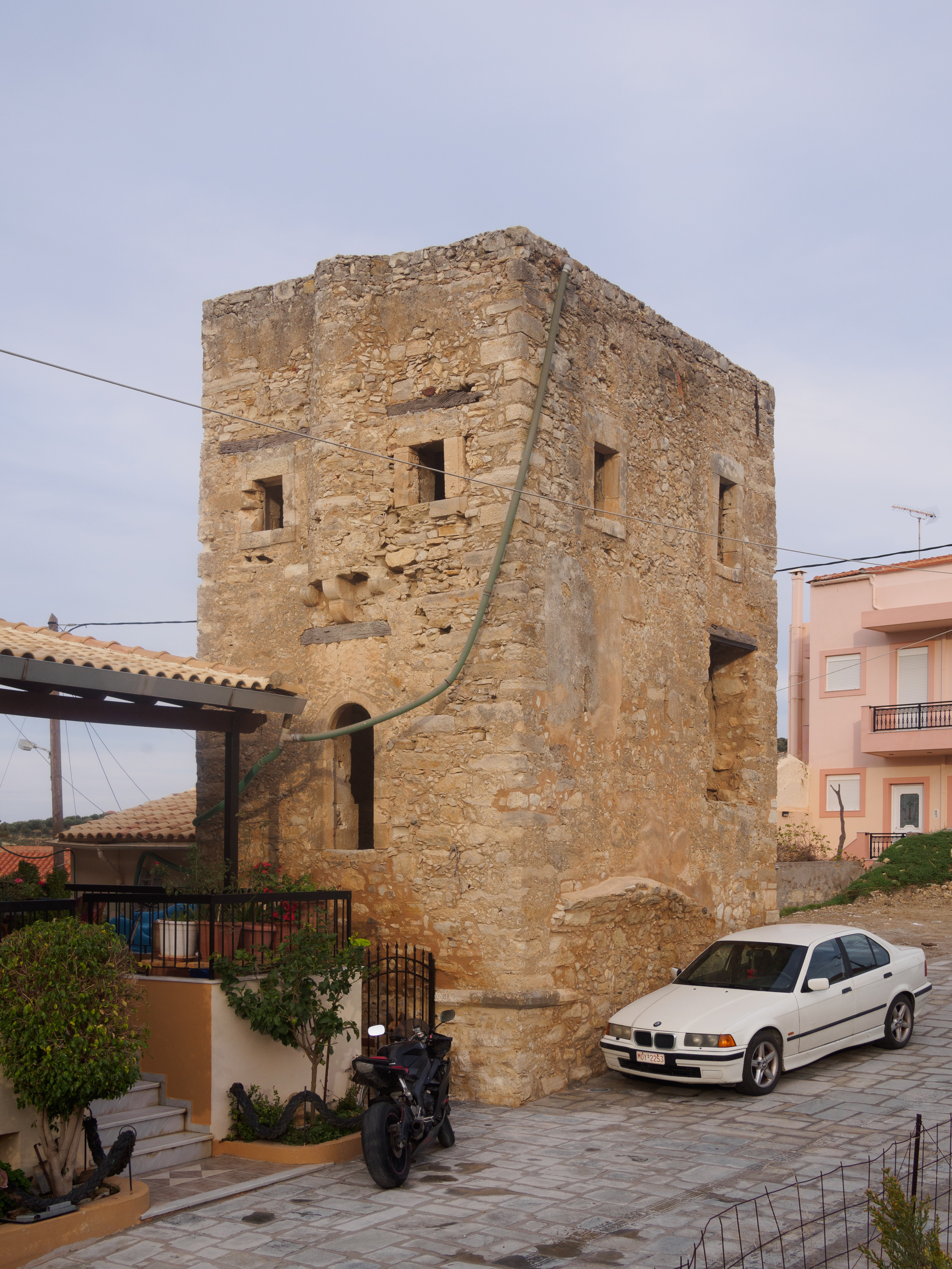 The 17th-18th century tower in Giannoudi, Rethymno.